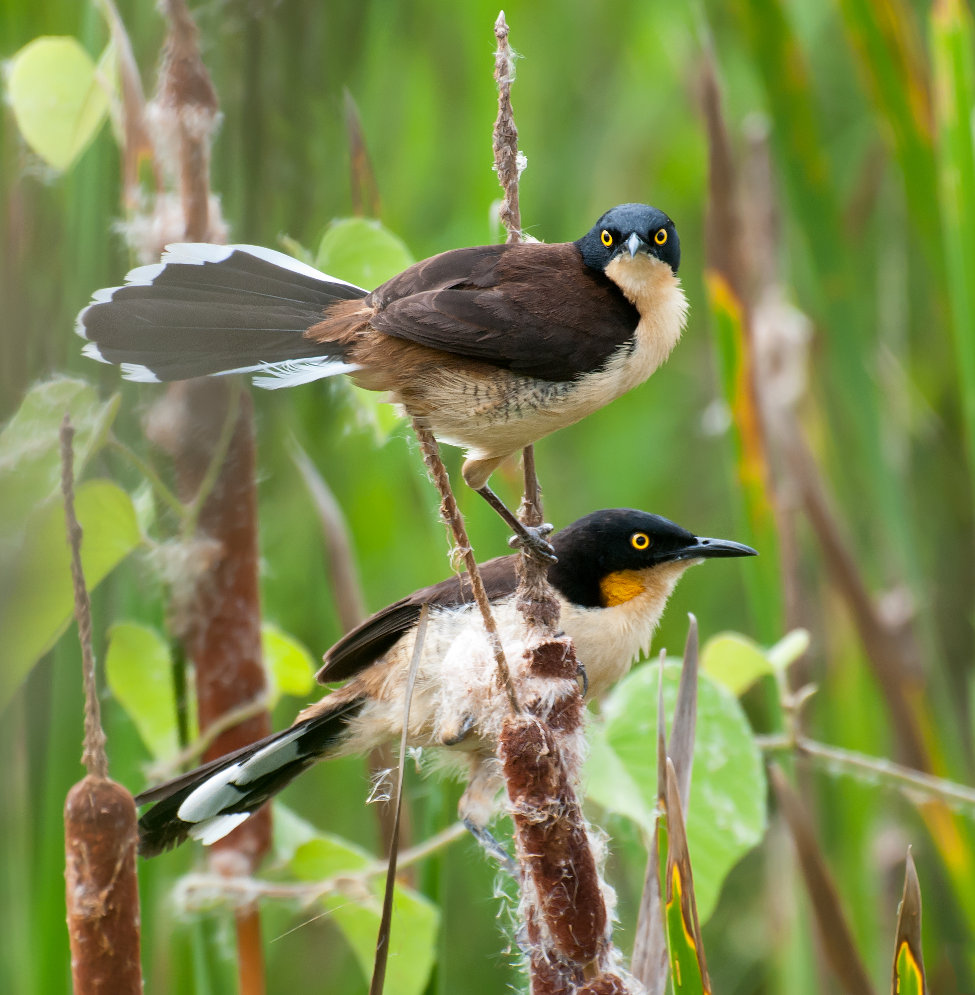 Two Black-capped Donacobius in Fazenda Campo de Ouro, Piraju, São Paulo, Brazil.